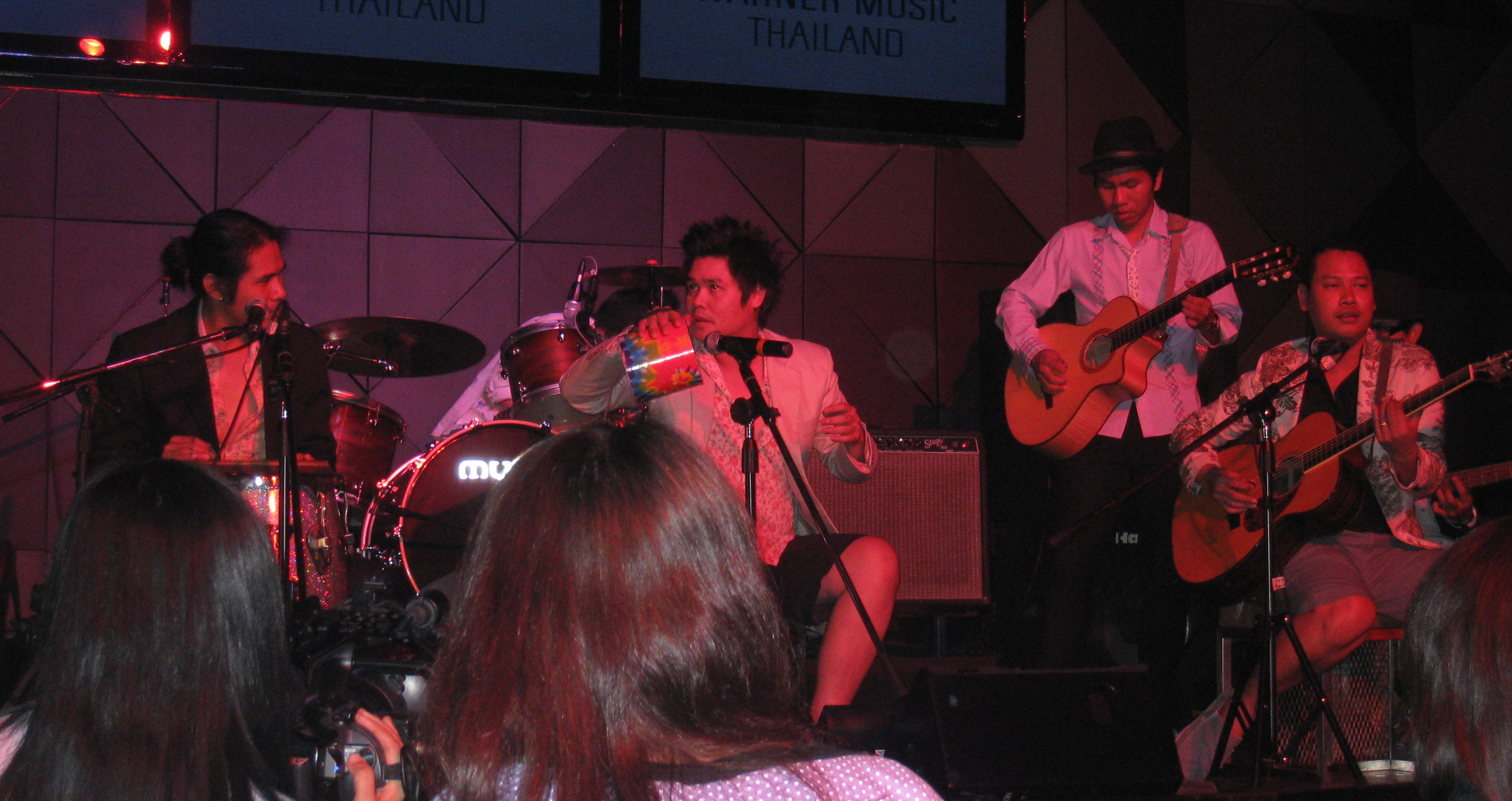 Sincharoen Brothers